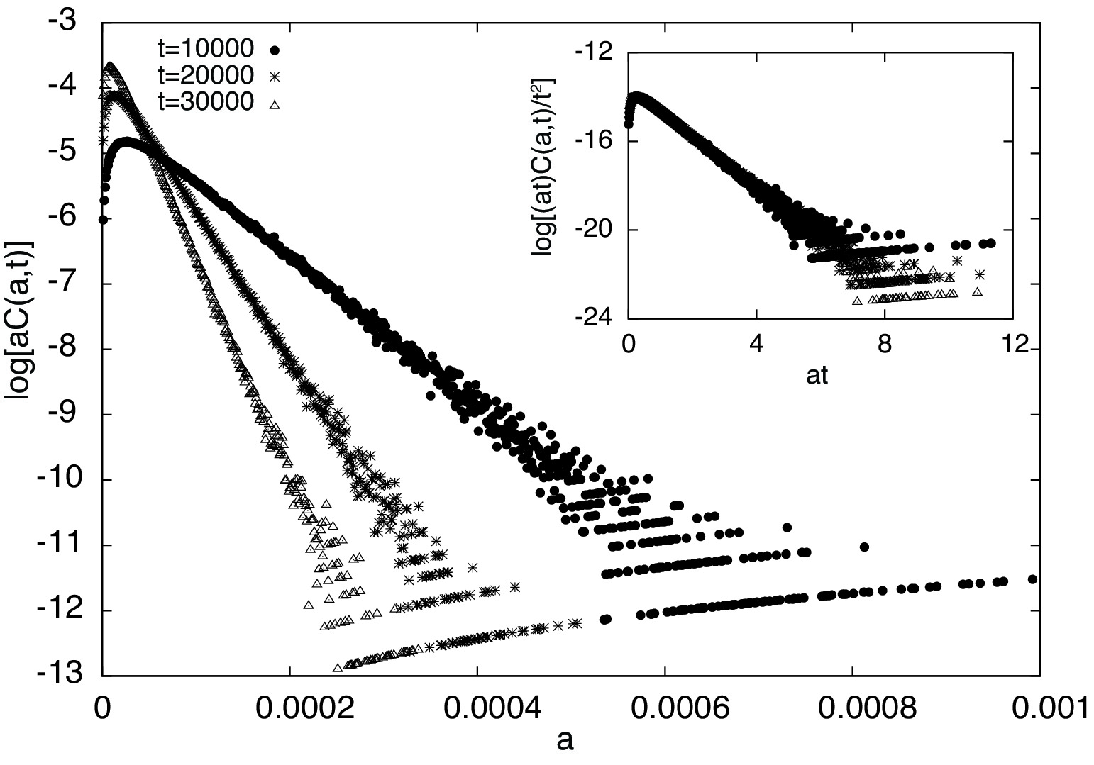 Area size distribution function for WPSL.